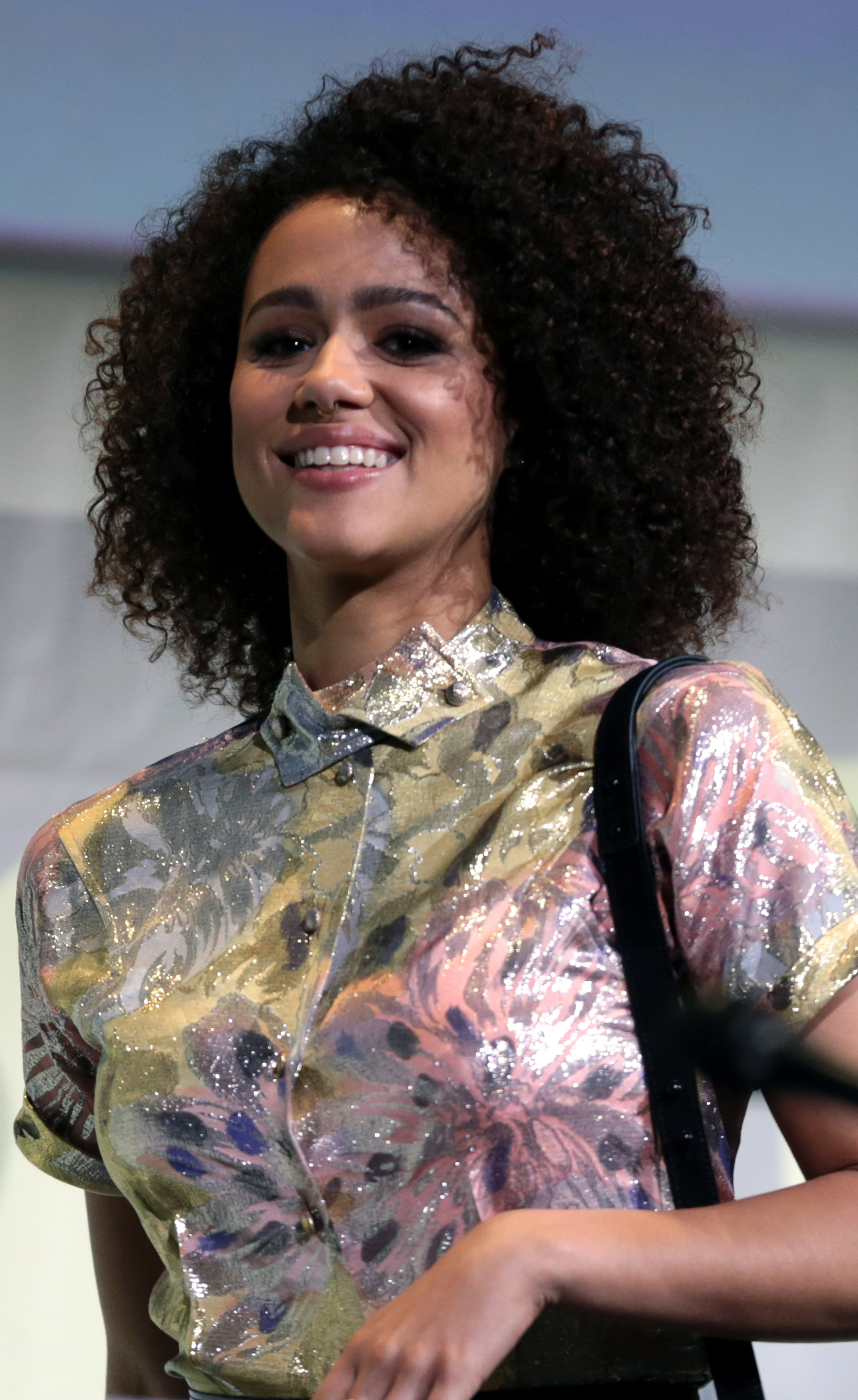 Nathalie Emmanuel speaking at the 2016 San Diego Comic-Con International in San Diego, California.